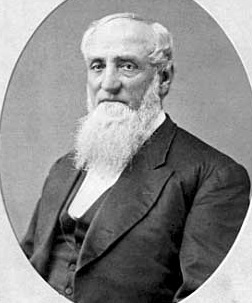 Dr.Thomas R. Potts, founder of Minnesota Medical Association and first mayor of St. Paul, Minnesota.